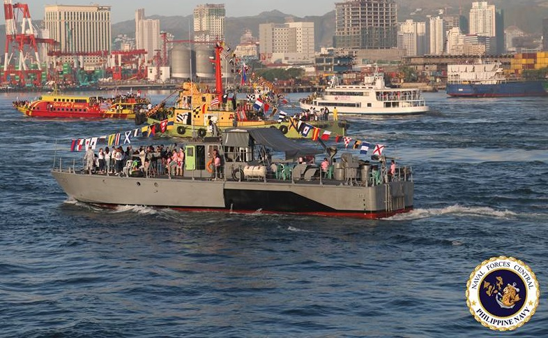 The Philippine Navy patrol craft BRP Alfredo Peckson (PC-372) at the Cebu Sinulog 2019 fluvial festval